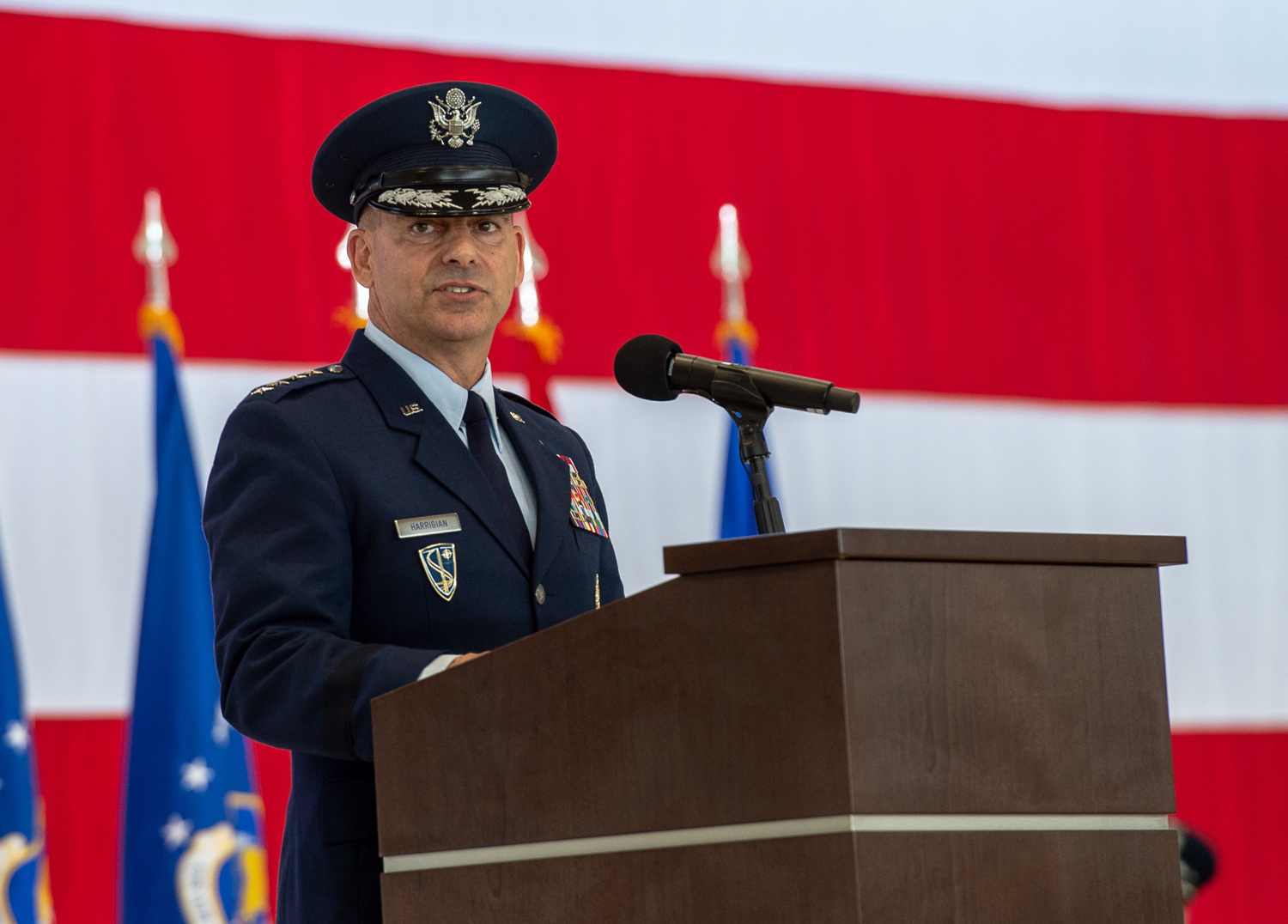 New U.S. Air Forces in Europe and Air Forces Africa Commander Gen. Jeffrey L. Harrigian speaks after taking command at a change-of-command ceremony at Ramstein Air Base, May 1, 2019.